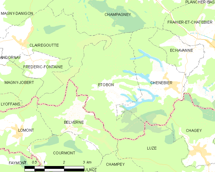 Map of French municipality